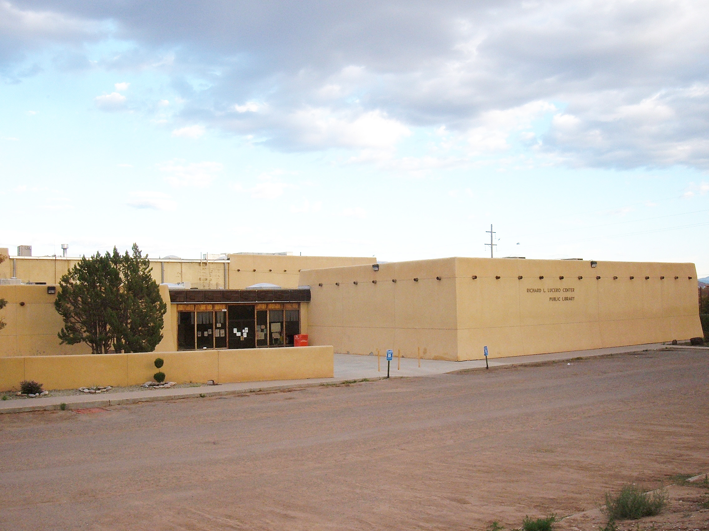 Richard L. Lucero Center in Española, New Mexico. The building houses Española Public Library, a swimming pool, and a gymnasium.